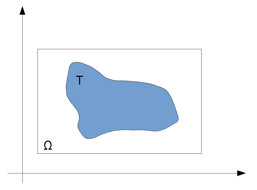 Definition of Riemann integral on a non-rectangular domain.